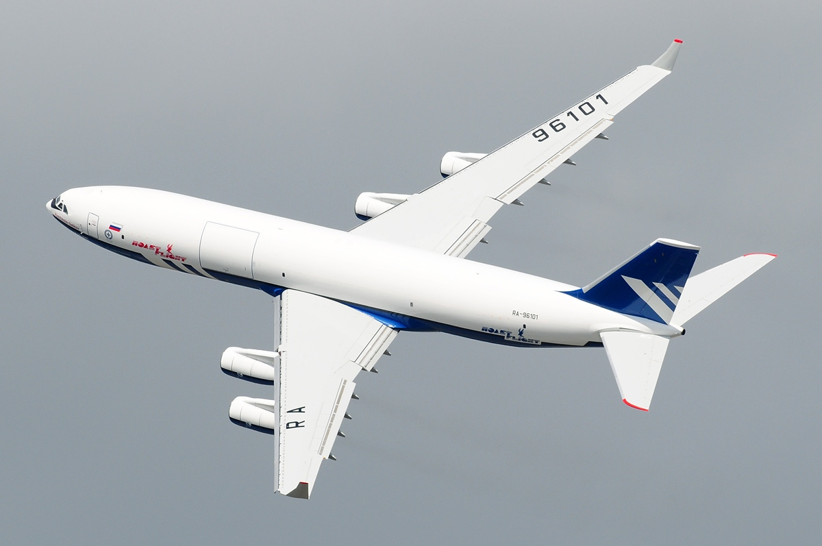 Big Russian transporter in action!